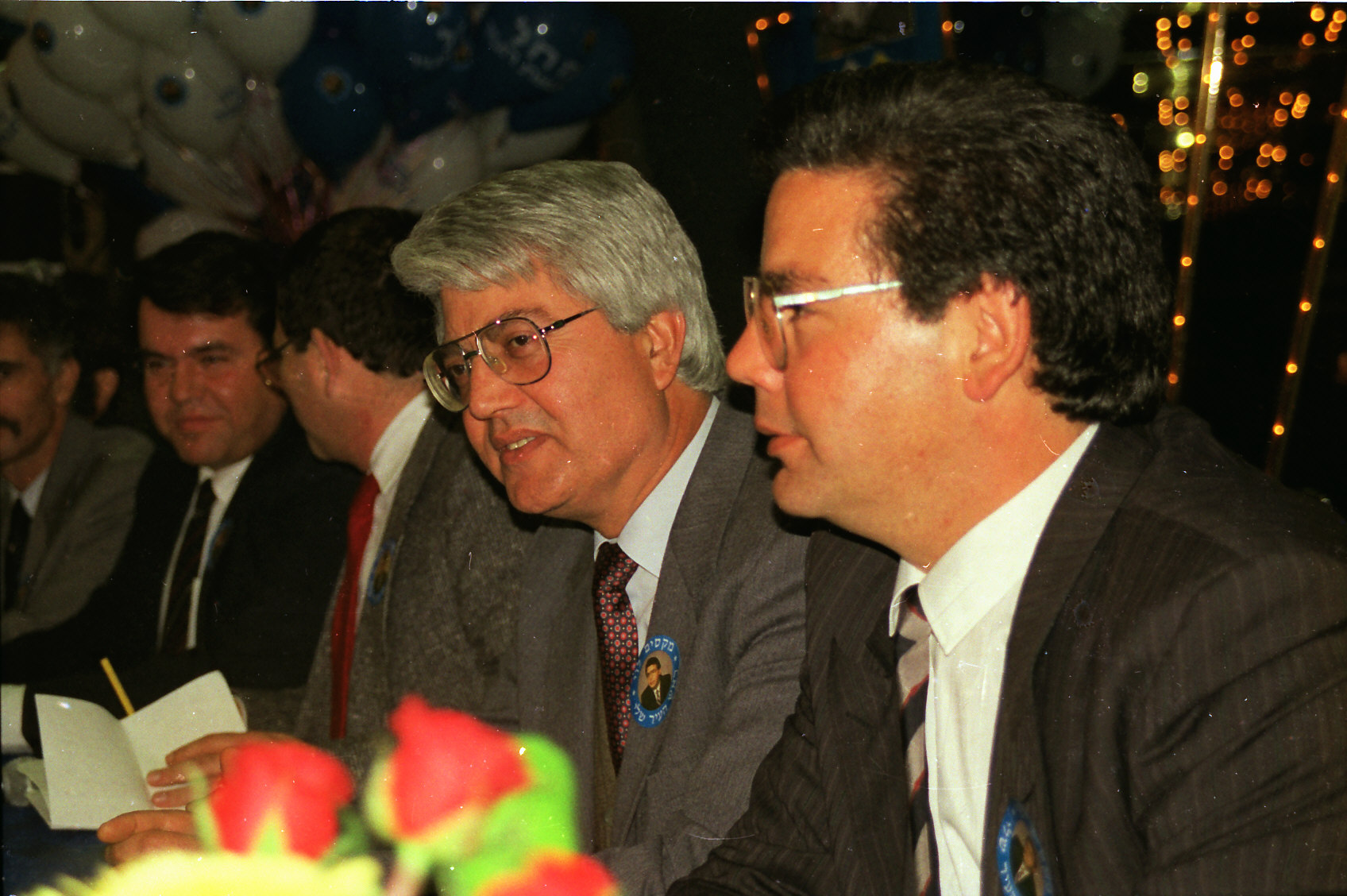 People of Israel